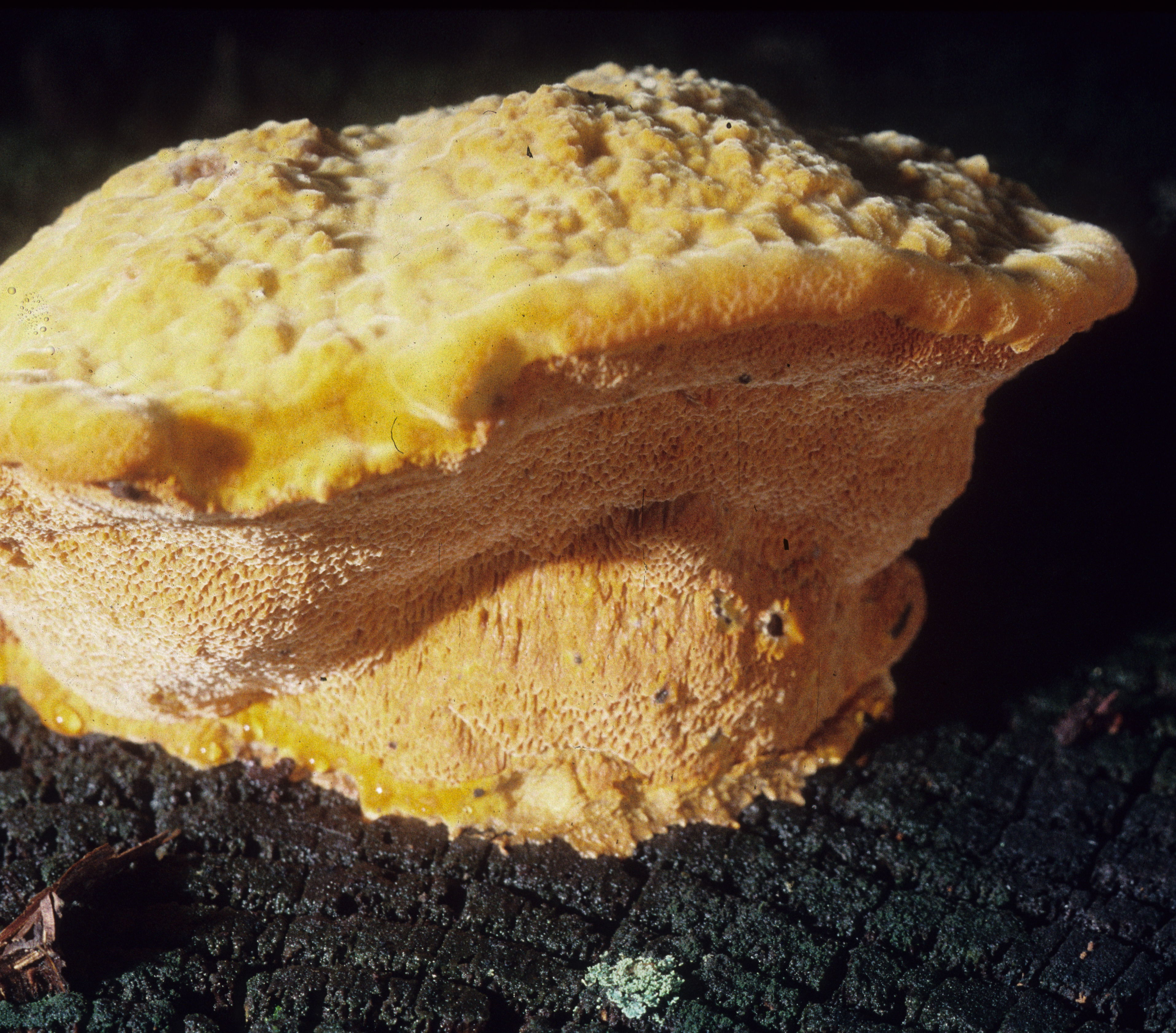 A fruit body of the polypore fungus Hapalopilus croceus (Pers.) Donk. Photographed in Holly River State Park, West Virginia, USA.